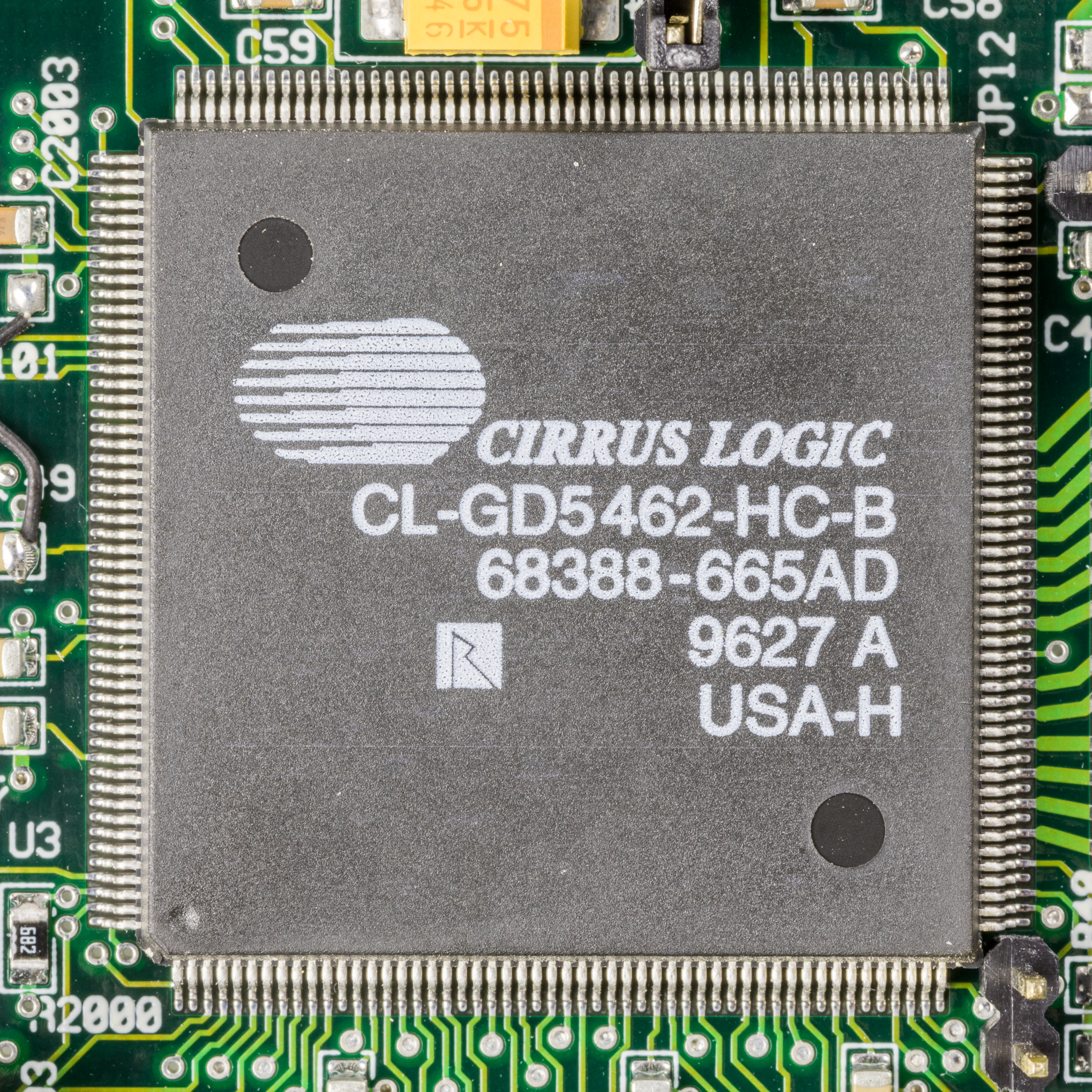 Appian Graphics Jeronimo J2N - Cirrus Logic CL-GD5462-HC-B - High-Performance VisualMedia Accelerator